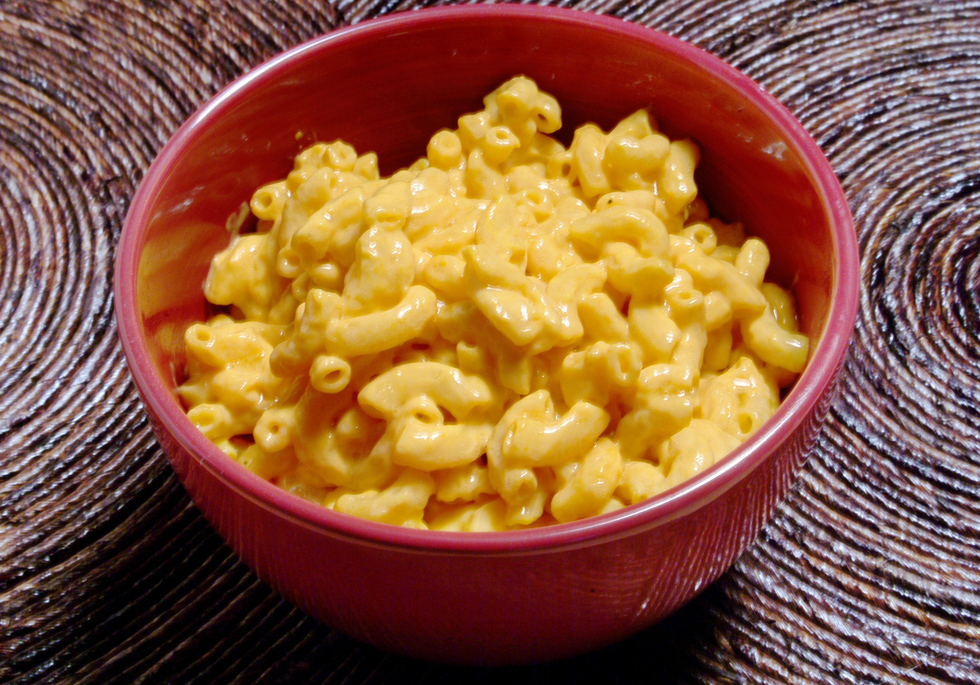 Own Camera